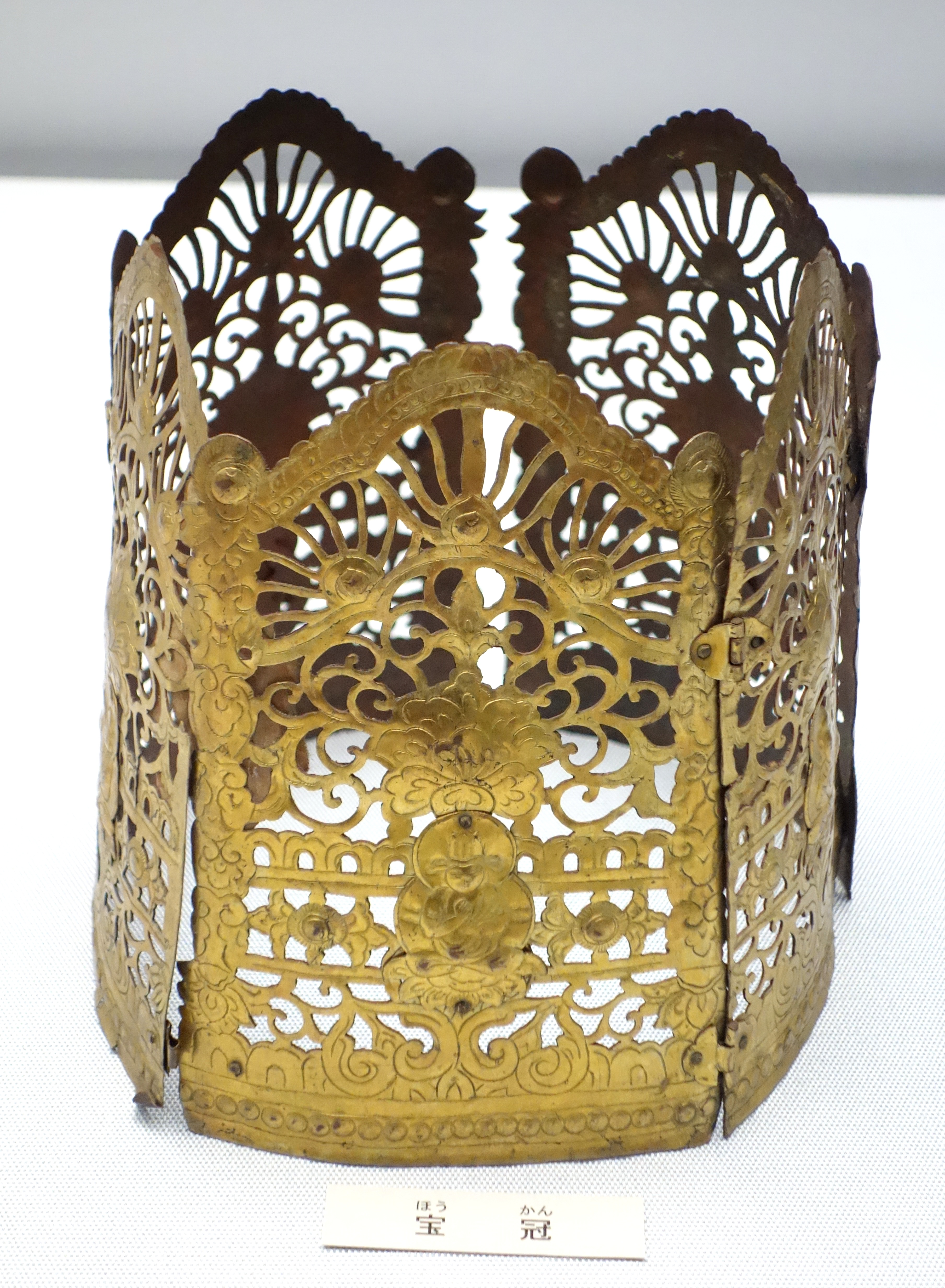 Exhibit in the Tokyo National Museum, Tokyo, Japan. This artwork is old enough so that it is in the public domain.